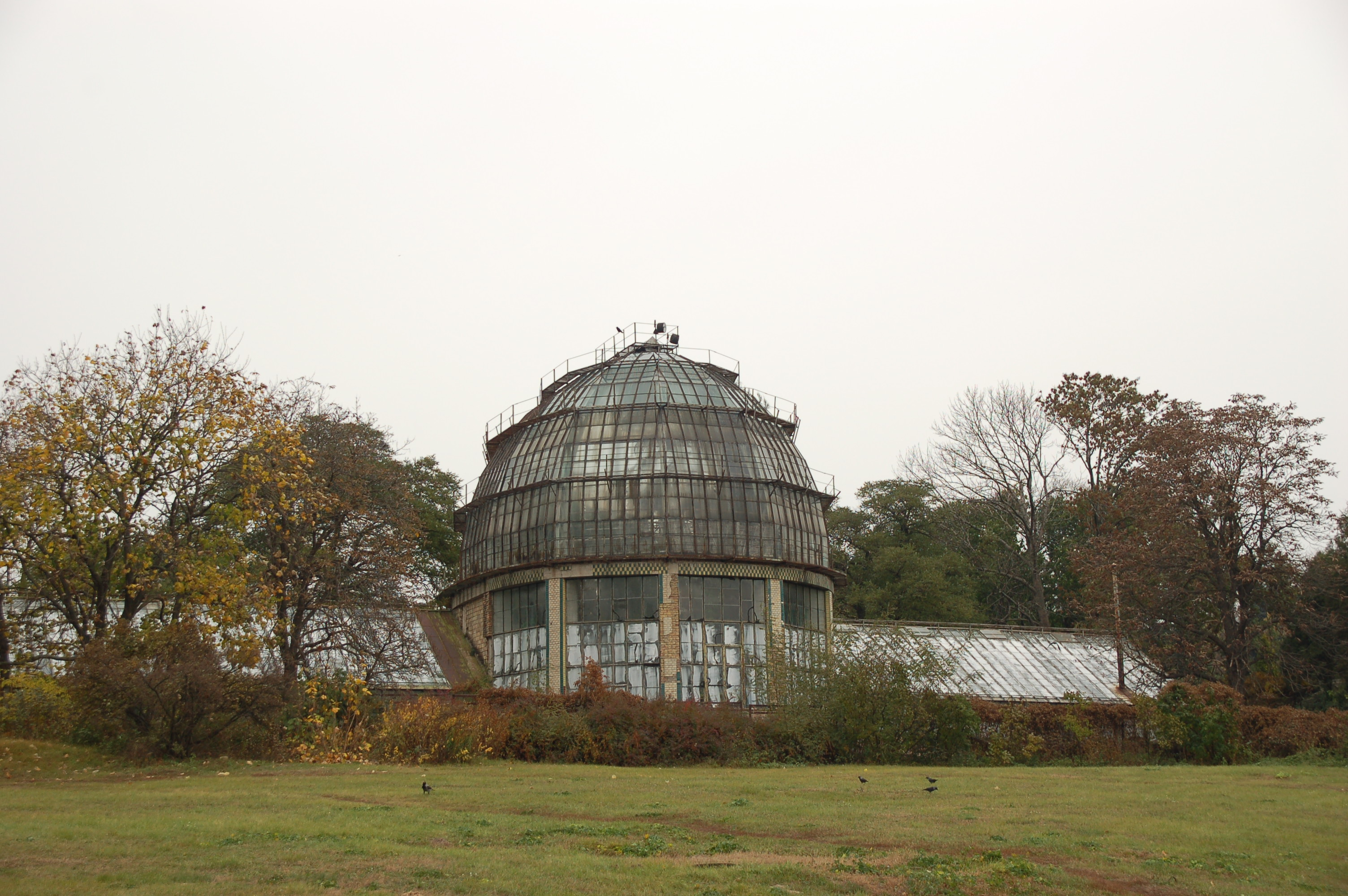 Old greenhouse in the Central Botanical Garden in Kiev.